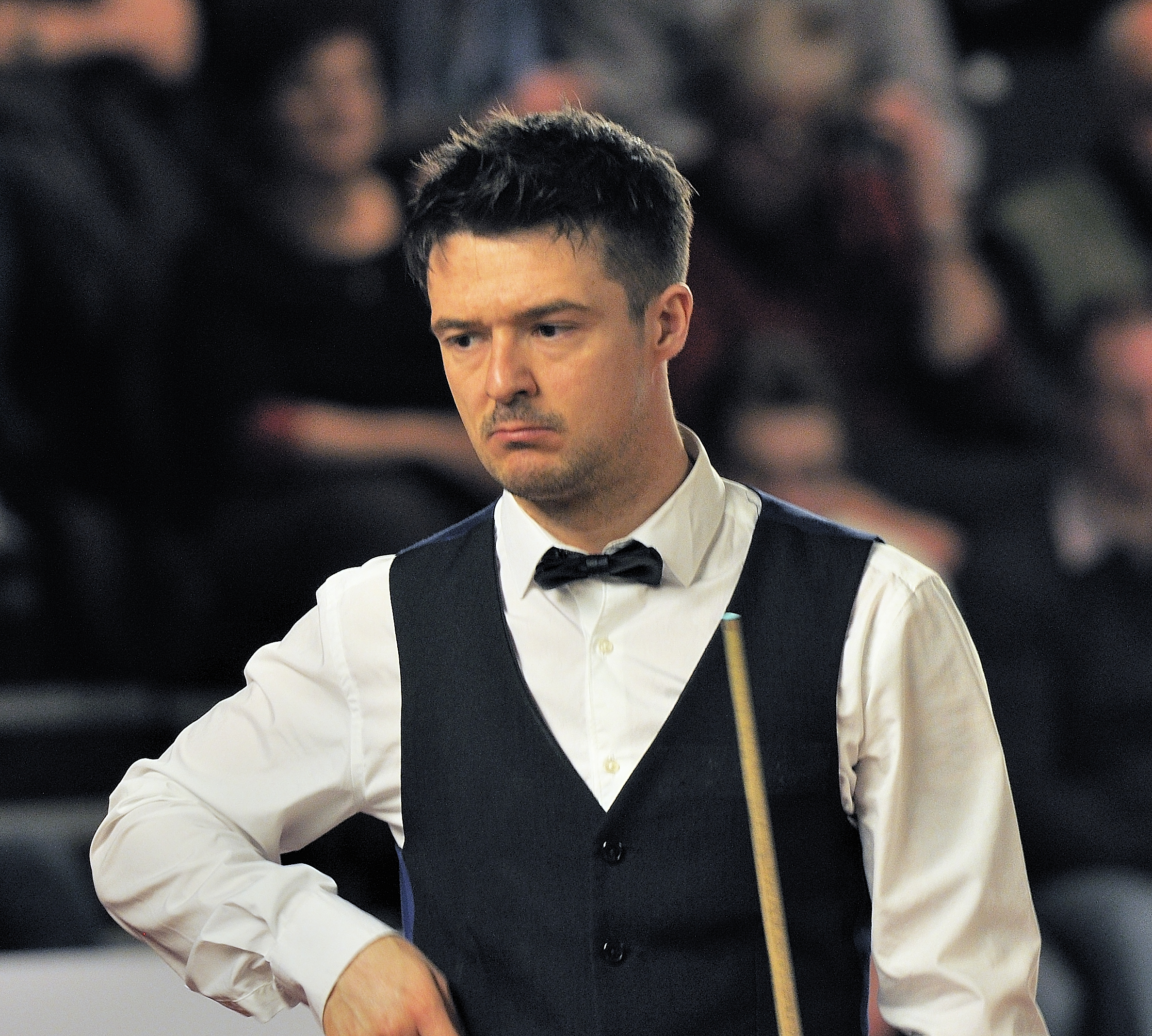 Picture taken in Berlin during the Snooker German Masters in 2014. Michael Holt.